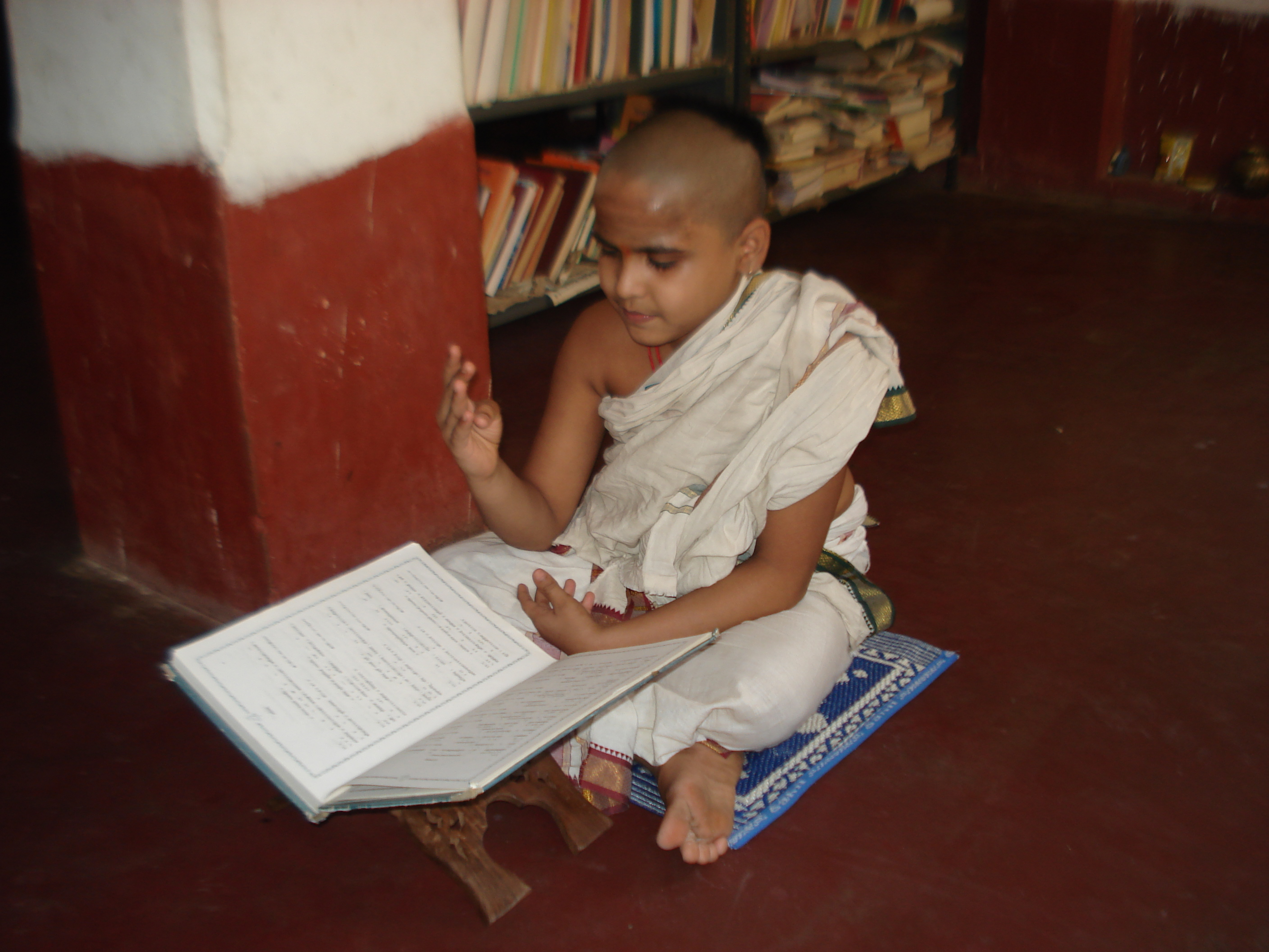 Student learning Veda. Location: Nachiyar Kovil, Kumbakonam, Tamilnadu.